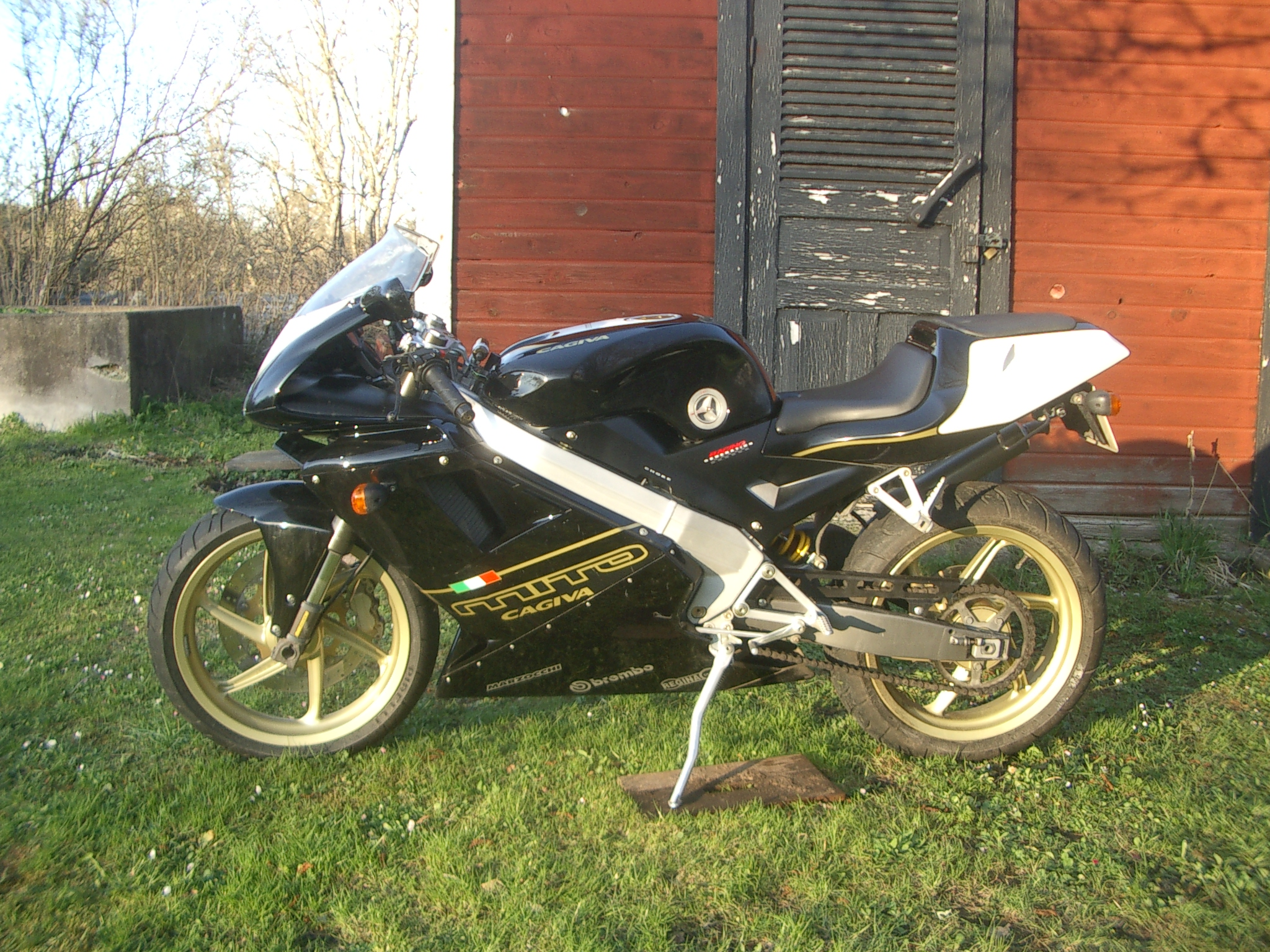 Cagiva Mito 2007 Jubilee Edition